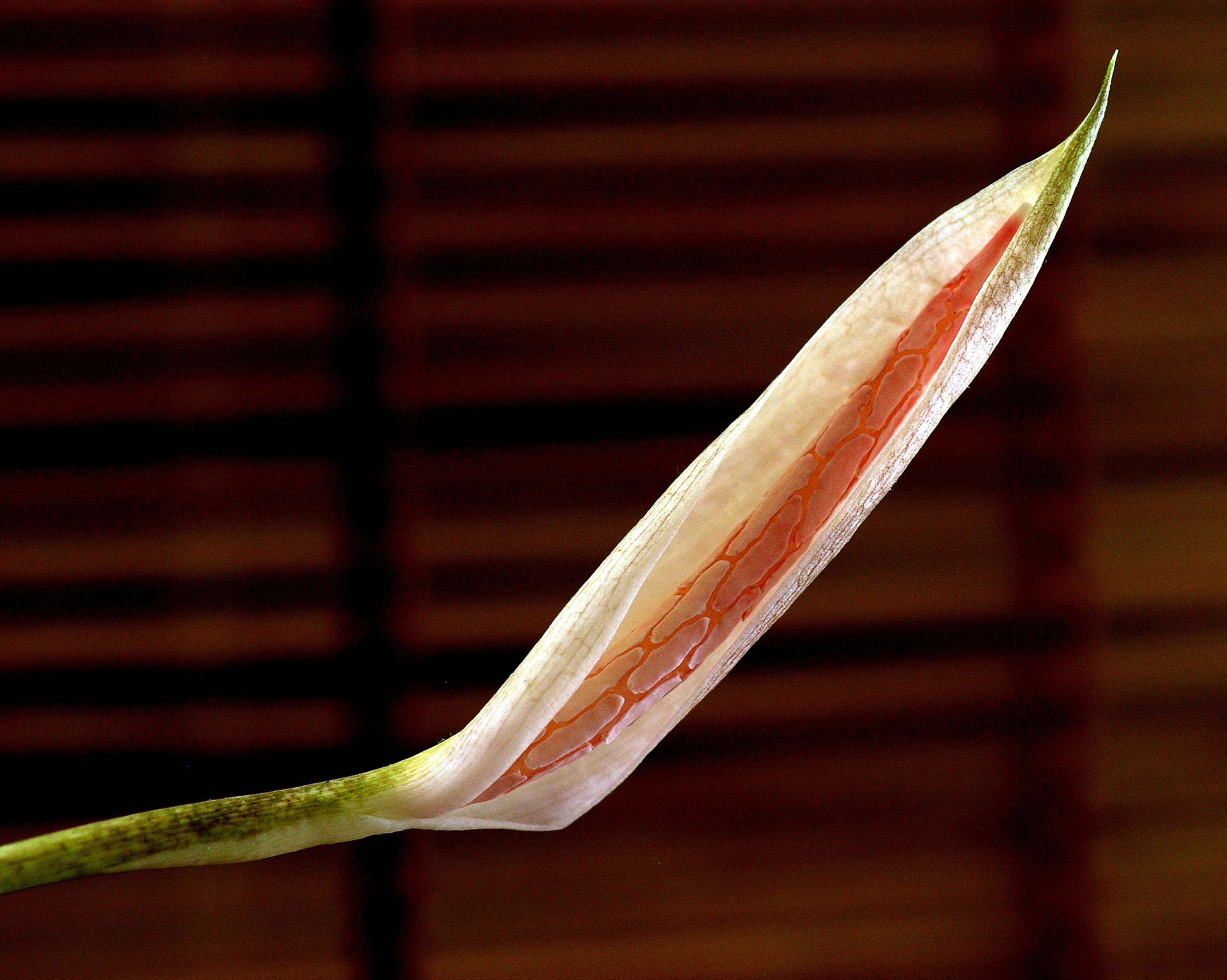 Inflorescence of Hapaline brownii